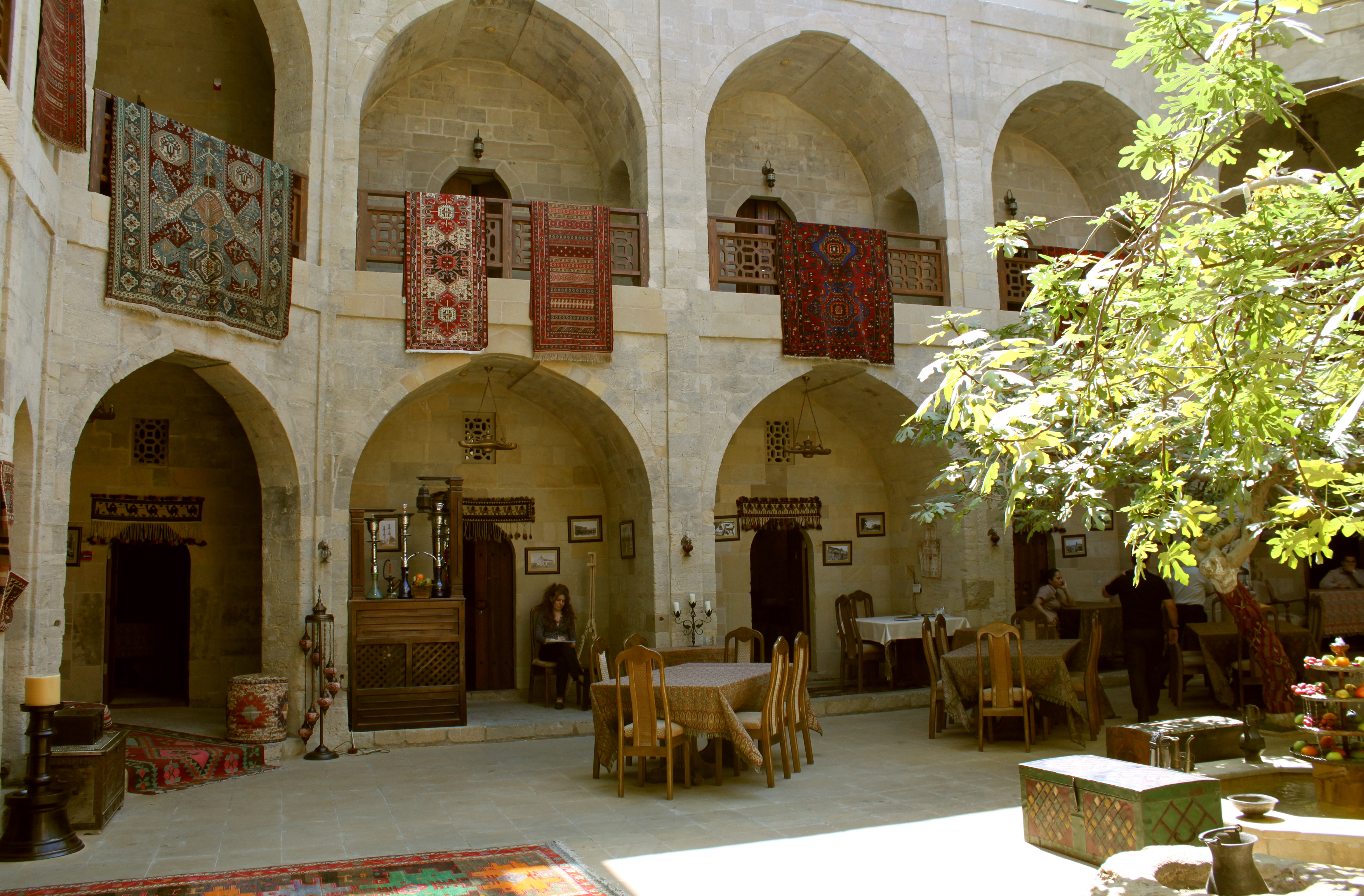 Two floory carvansarai in Baku